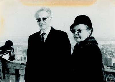 Hans Schwerdtfeger, 1964 in Montreal